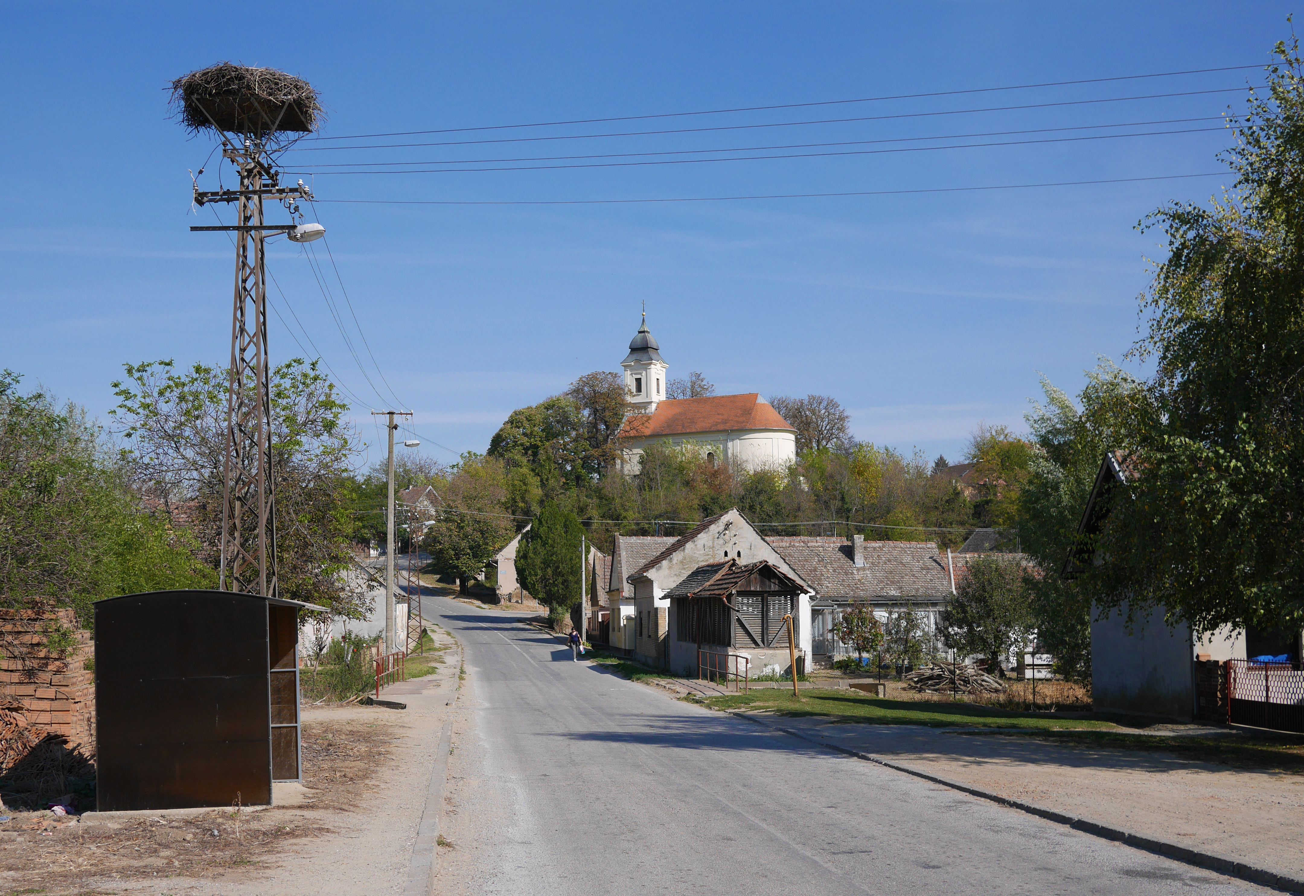 Neštin (Srem), Serbia